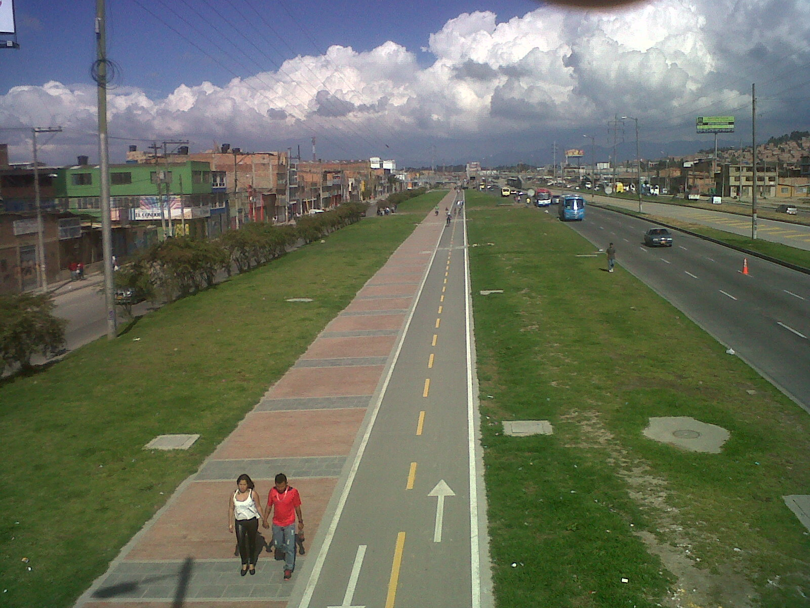 Soacha's bikepath aspect in León XIII neighborhood. Right side: NQS (Norte-Quito-Sur / North-Quito-South) Avenue. Left side: Carrera Séptima (Seventh Carrera), also know as The Parallel (La Paralela).